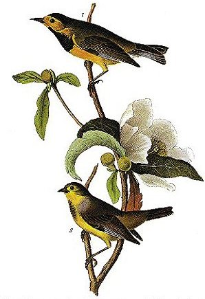 Lithograph from Audubon's Birds of America